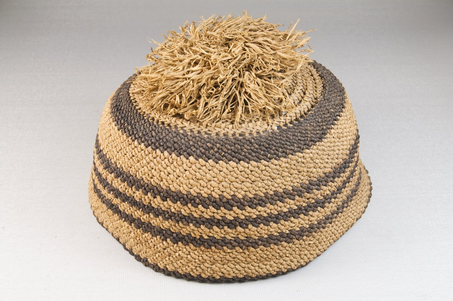 Tufted basketry cap. Tan raffia basketry cap, brown and tan shredded fiber knot at top of cap. Only other decoration is the dark brown bands from top to bottom that alternate with the beige weave. Technique is piled and plaited. Condition: good, tuft slightly crushed. (Tuft is top).